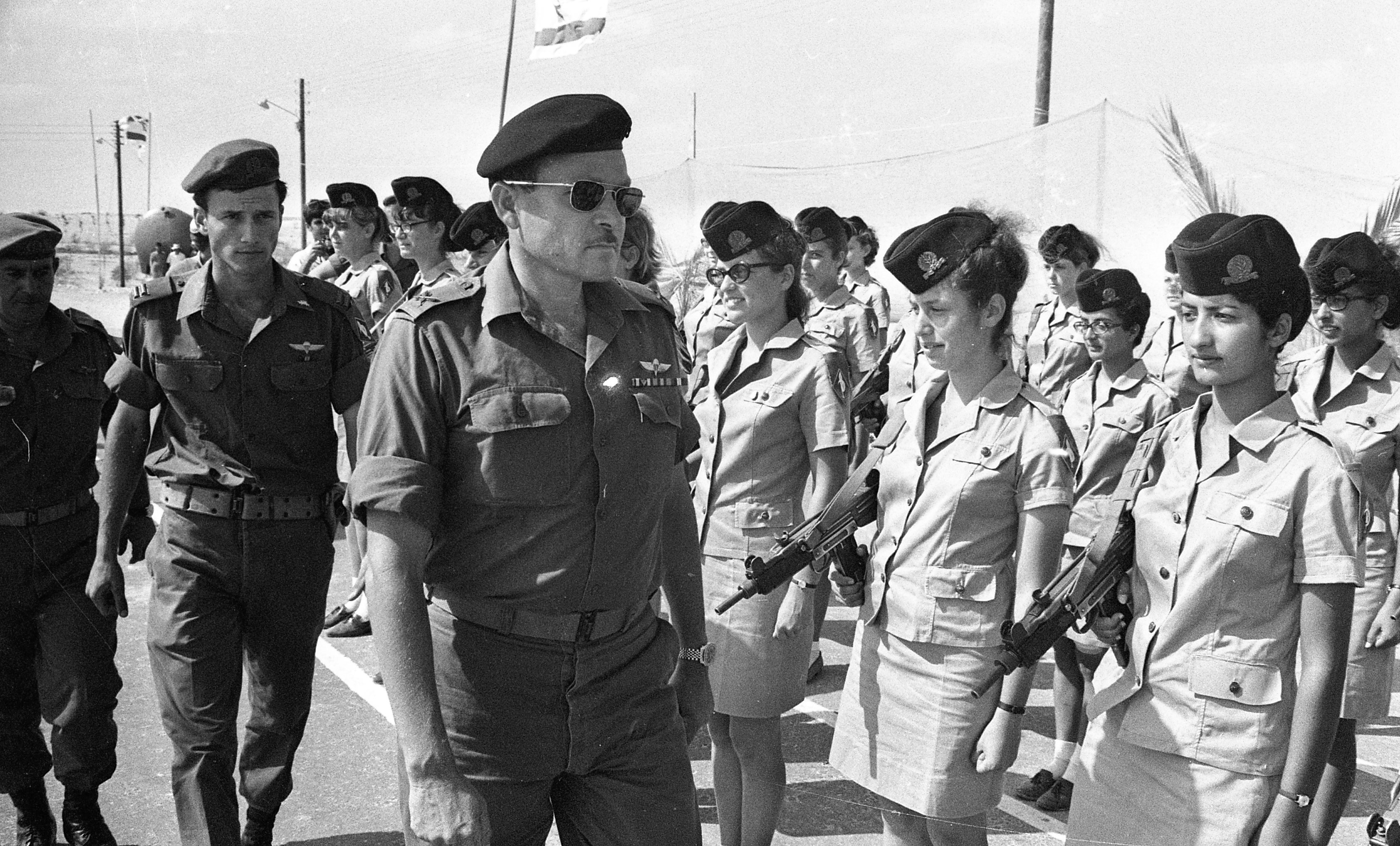 The new Nahal military settlement, Nahal Dikla, was officially founded in north Sinai near the town El-Arish.